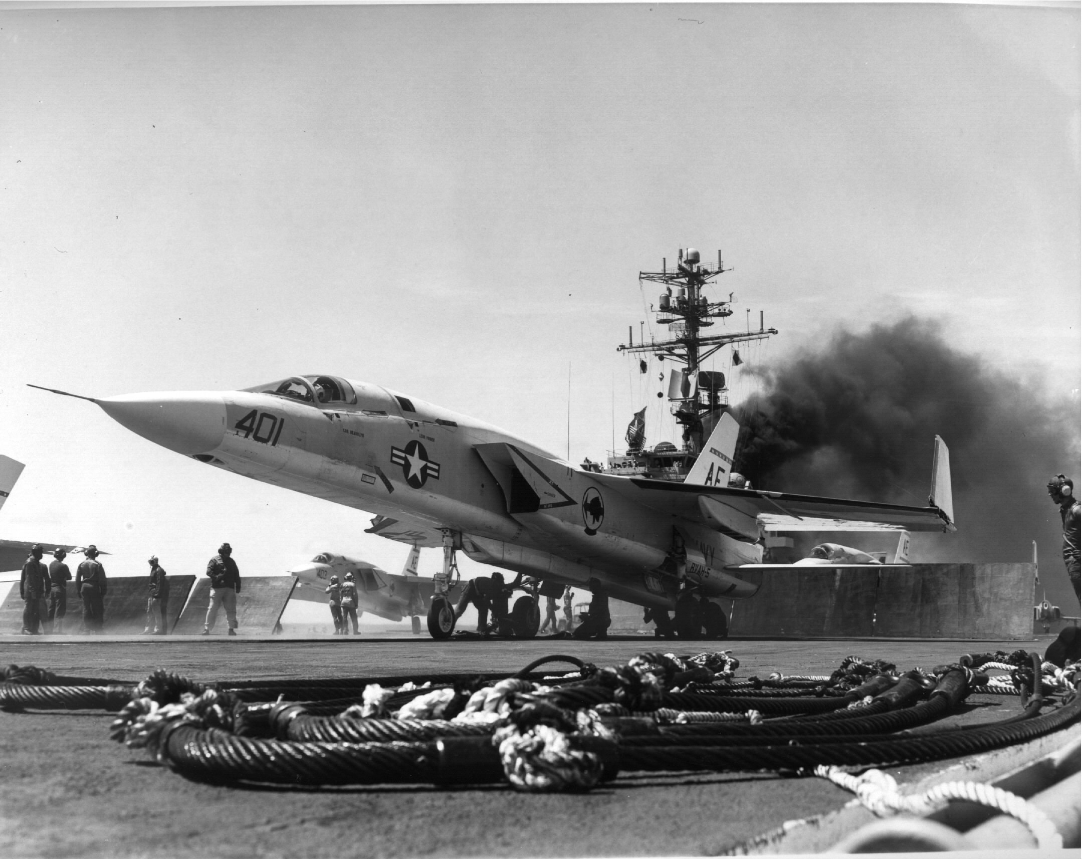 A U.S. Navy North American RA-5C Vigilante piloted by Cdr D. E. Deardolph, executive officer of heavy reconnaissance squadron RVAH-5 Savage Sons, assigned to Attack Carrier Air Wing 6 (CVW-6), is being hooked on the port bow catapult prior to being launced on a photographic mission from the aircraft carrier USS America (CVA-66), in 1966/67.